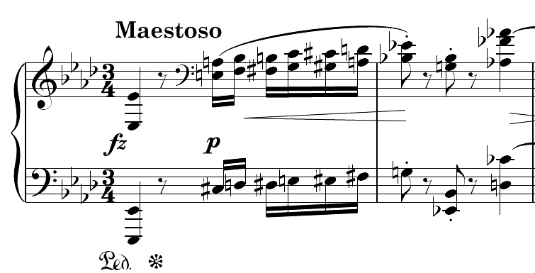 Chopin's Polonaise in A flat major Op. 53